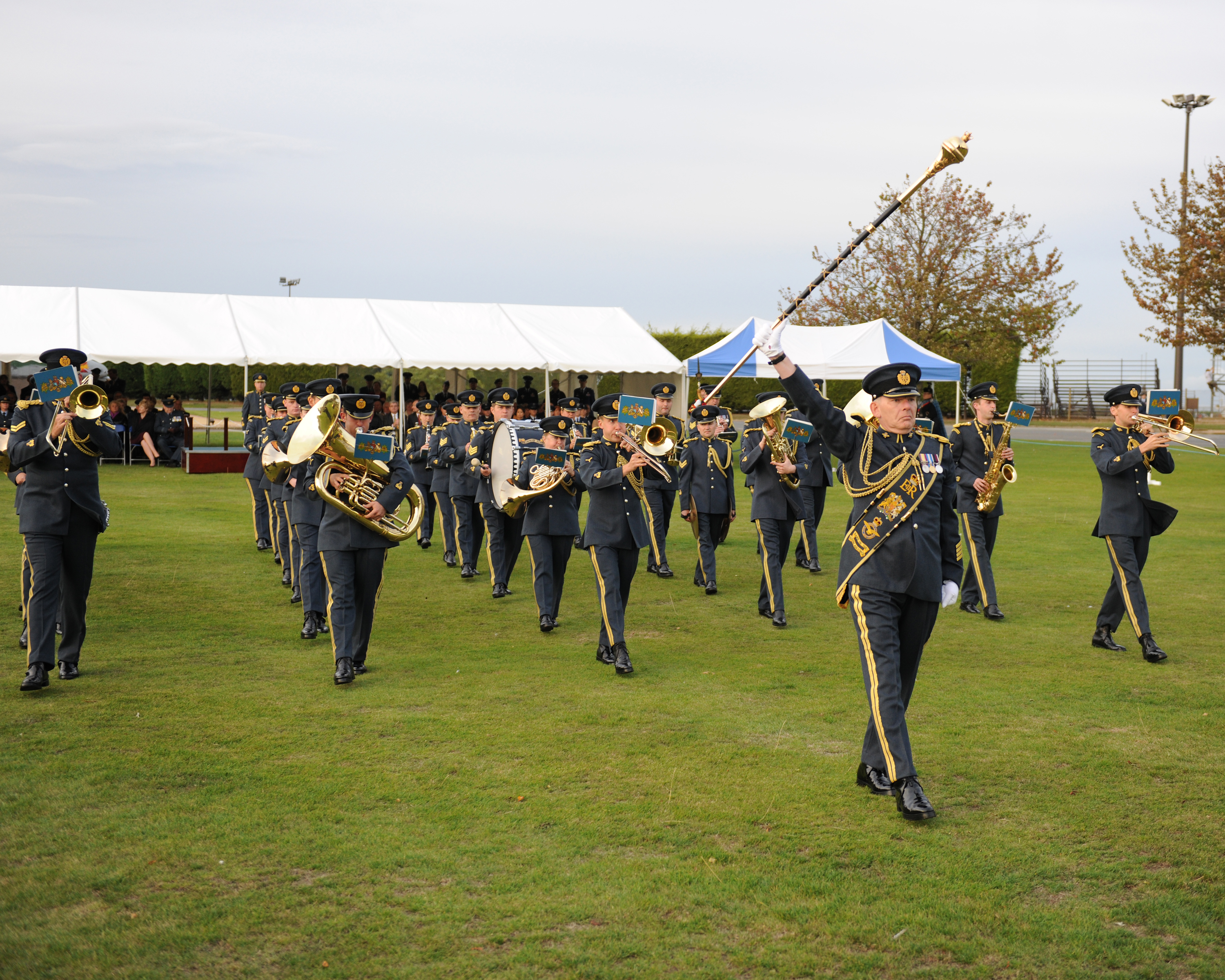 RAF ALCONBURY, United Kingdom - The Band of the Royal Air Force Regiment helps commemorate the 71st anniversary of The Battle of Britain with a Beating of Retreat and Sunset Ceremony Sept. 7 here.